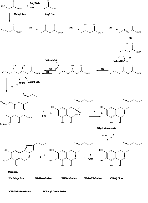 natural product